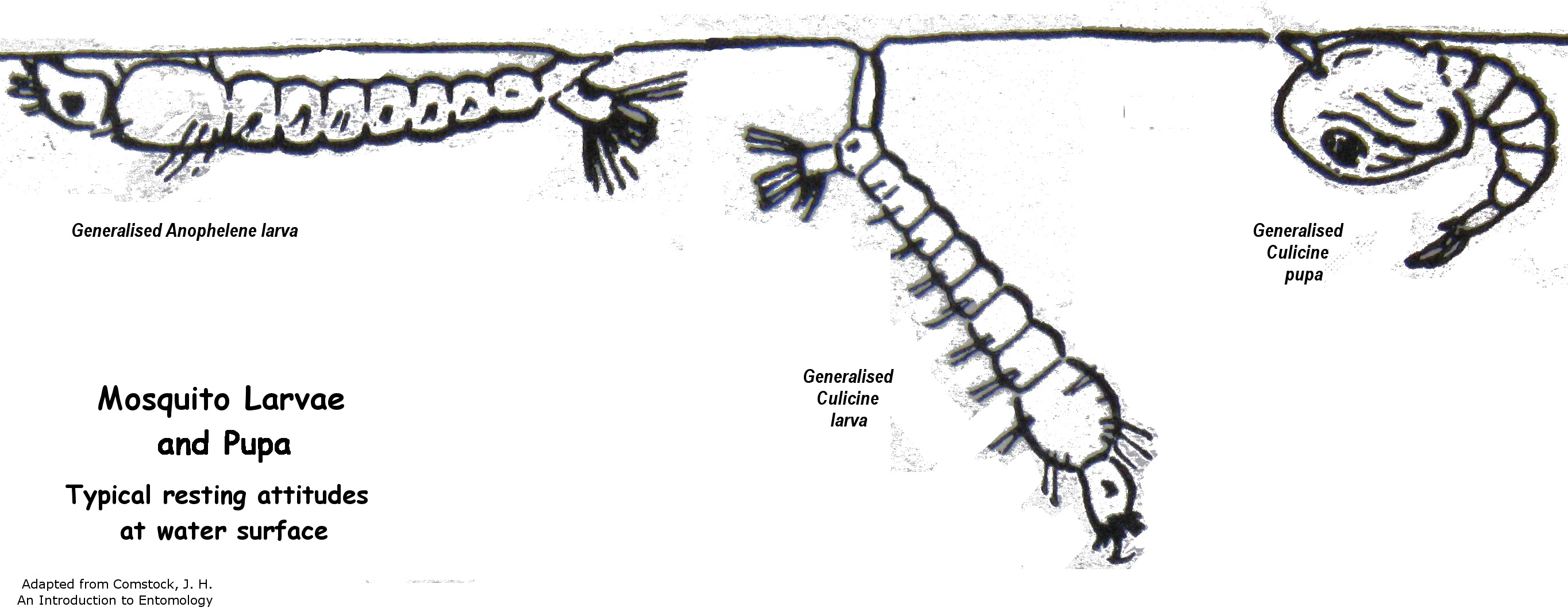 Adapted from Illustration in Introduction to Entomology by JH Comstock. Shows typical Culicine larva and pupa, plus Anophelene larva